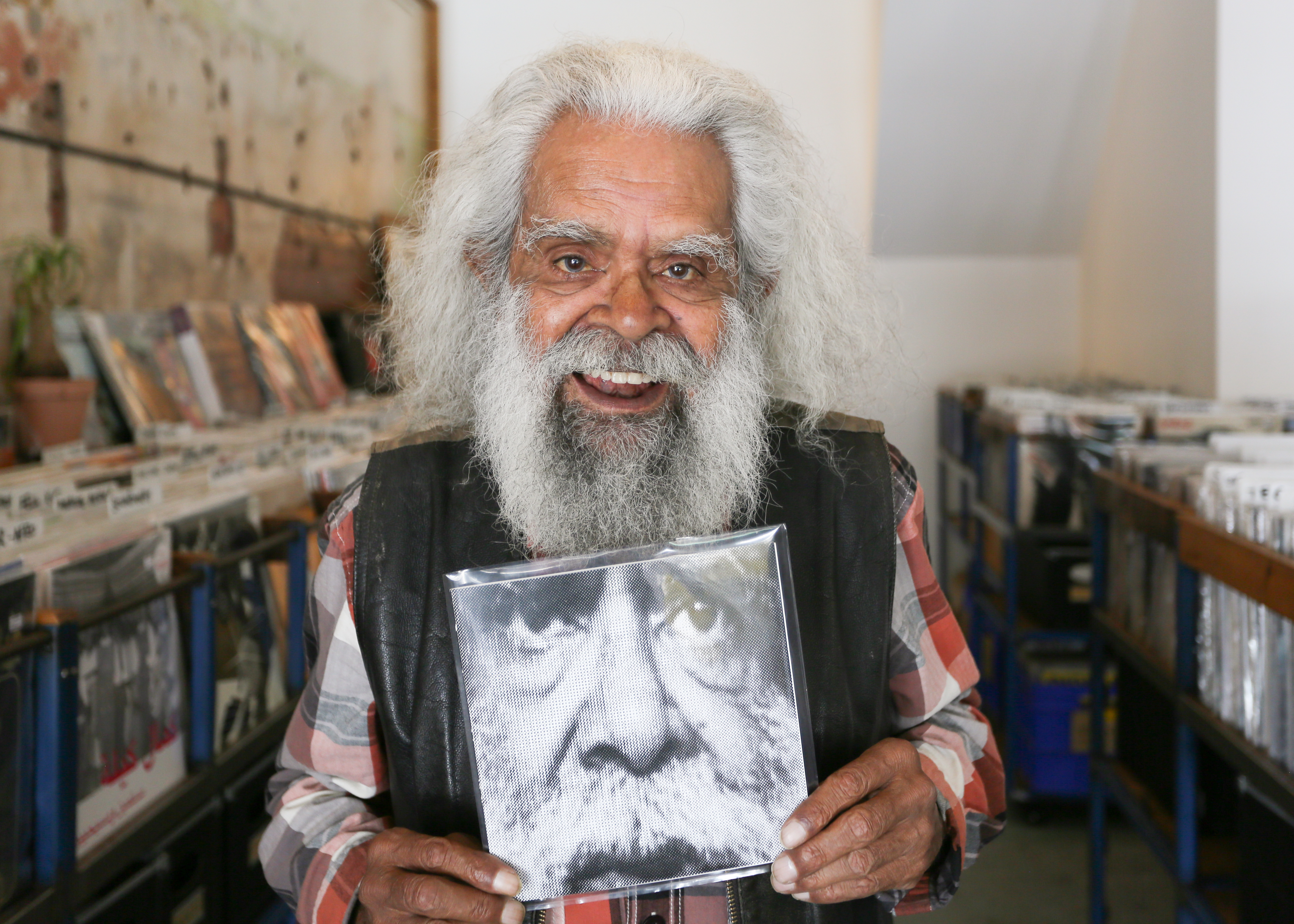 2019 - Jack Charles holding his vinyl